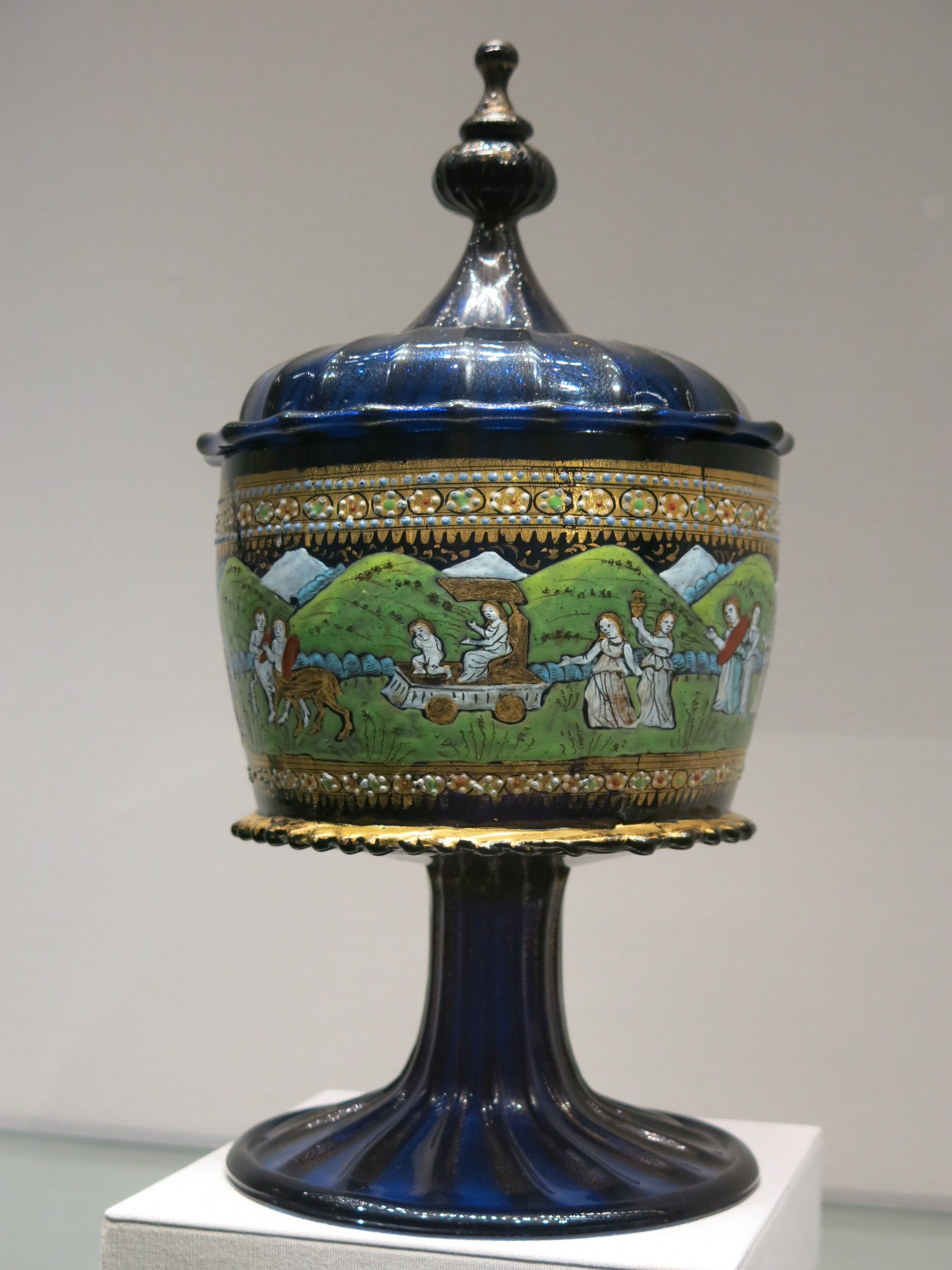 Cup with allegorical procession. Angelo Barovier's workshop ? Venice around 1480. Colored glass, enamelled and gilded. Bequest of Baroness Solomon of Rotschild 1922. Louvre museum, Paris, France.